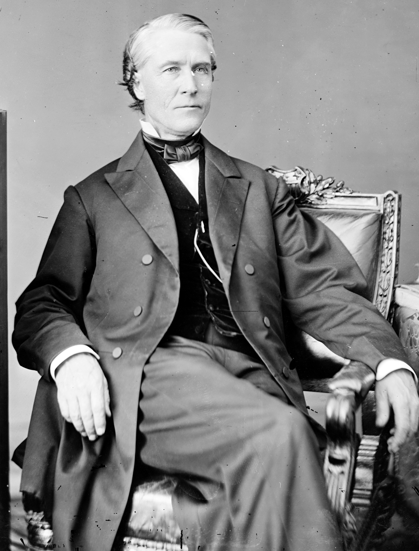 William P. Price, US Representative from Georgia